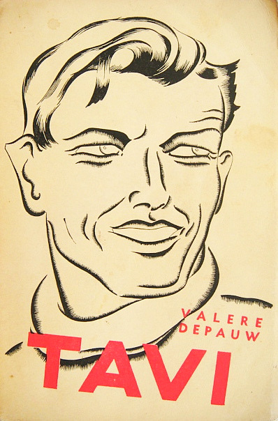 Martha Van Coppenolle - Illustrator Book-cover and illustrations for 'Tavi'